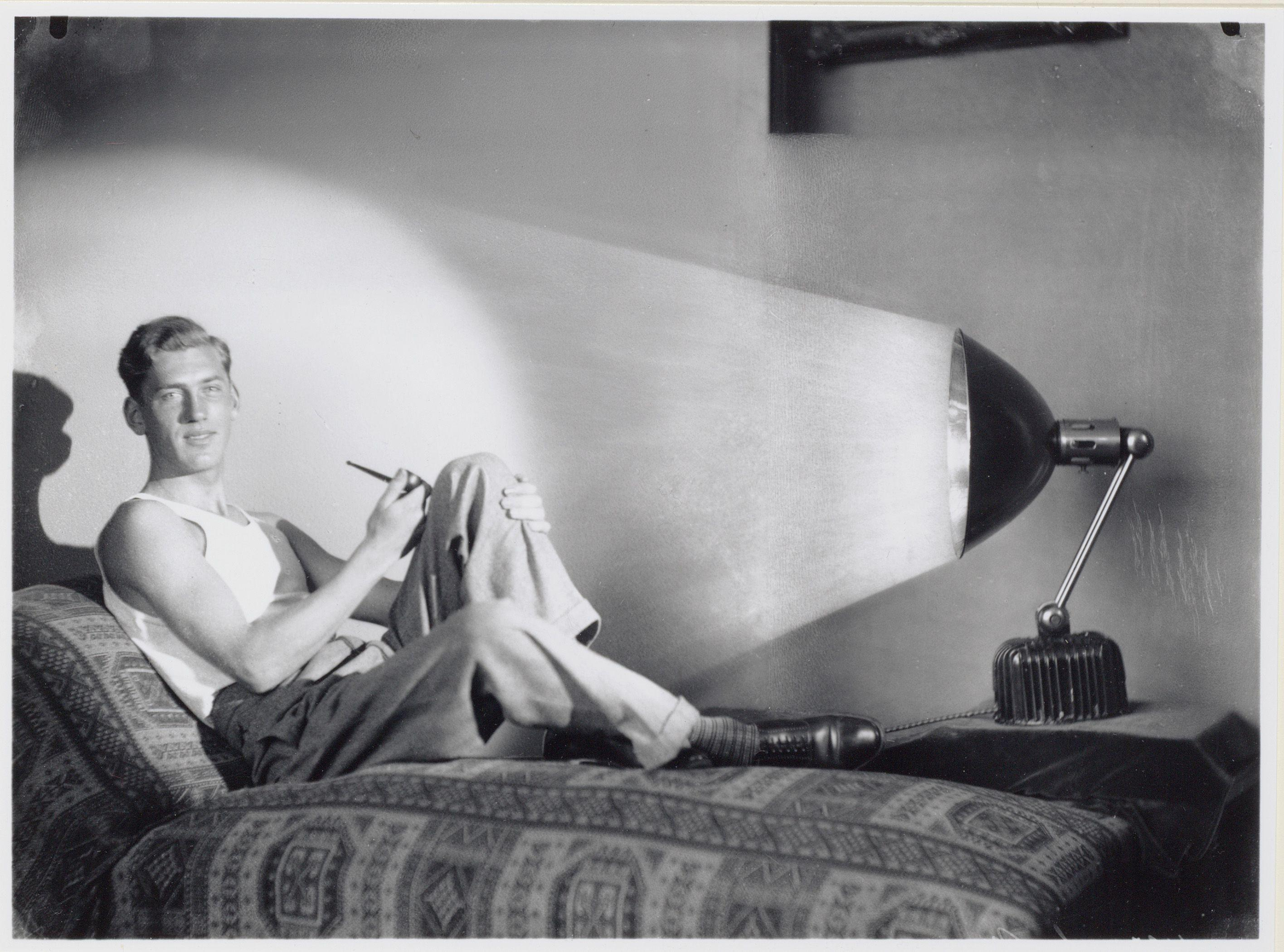 Tanning lamp in the Netherlands (1930). Photograph by Jacob Merkelbach (1877-1942)